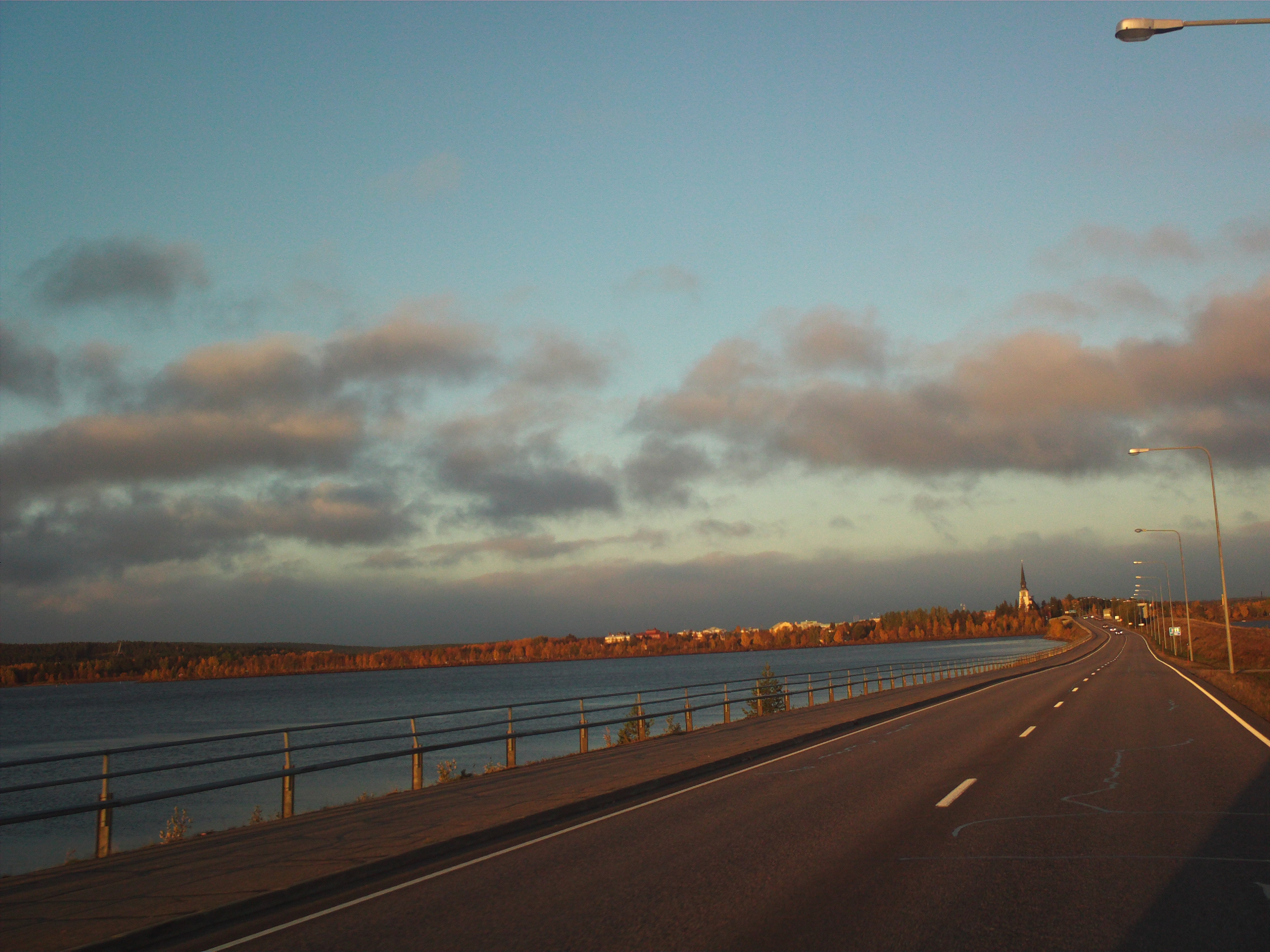 Kemijärvi, the northernmost city in Finland viewed from highway 5. In the foreground the eponymous lake.